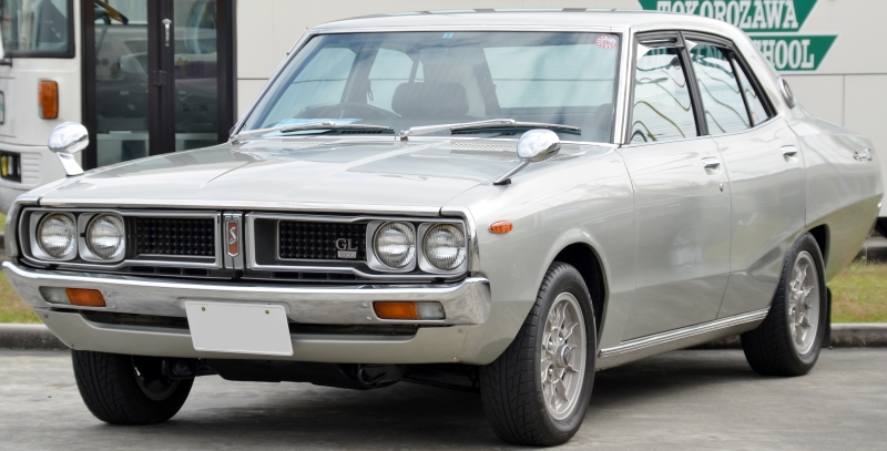 Nissan Skyline 1800GL